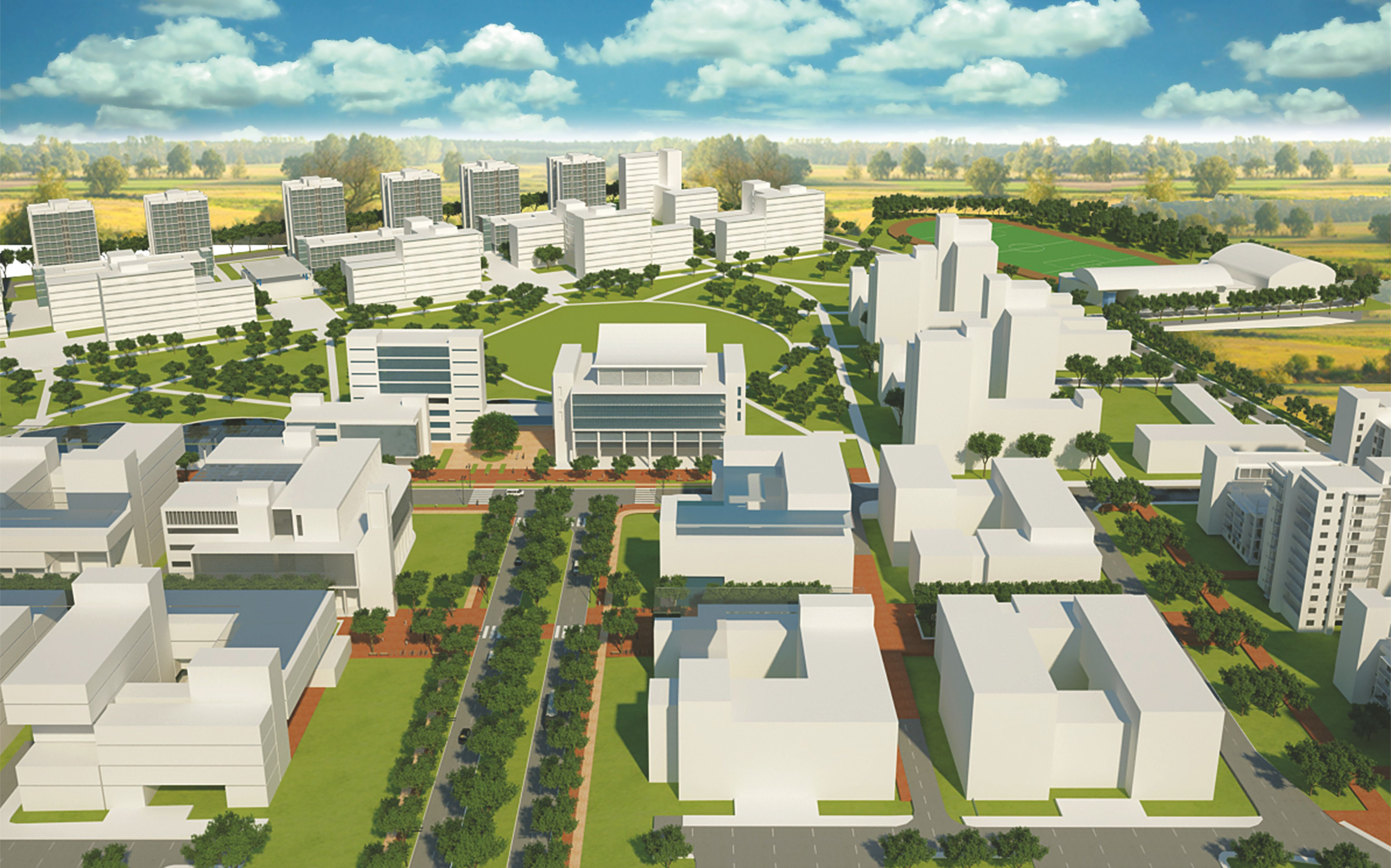 3D Projection of South Asian University's proposed campus at Maidan Garhi, New Delhi